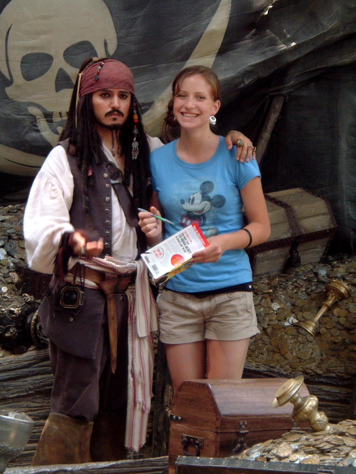 Disneyland's own Jack Sparrow